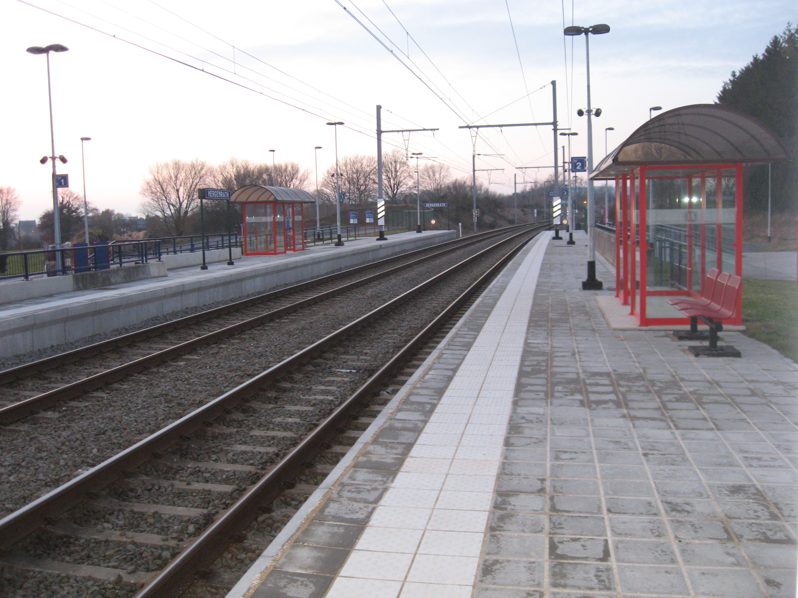 Hergenrath station is recently opened between Welkenraeth and Aachen.